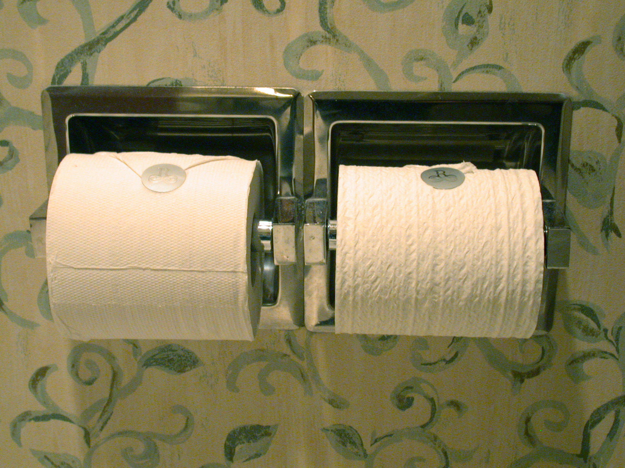 Toilet paper roll